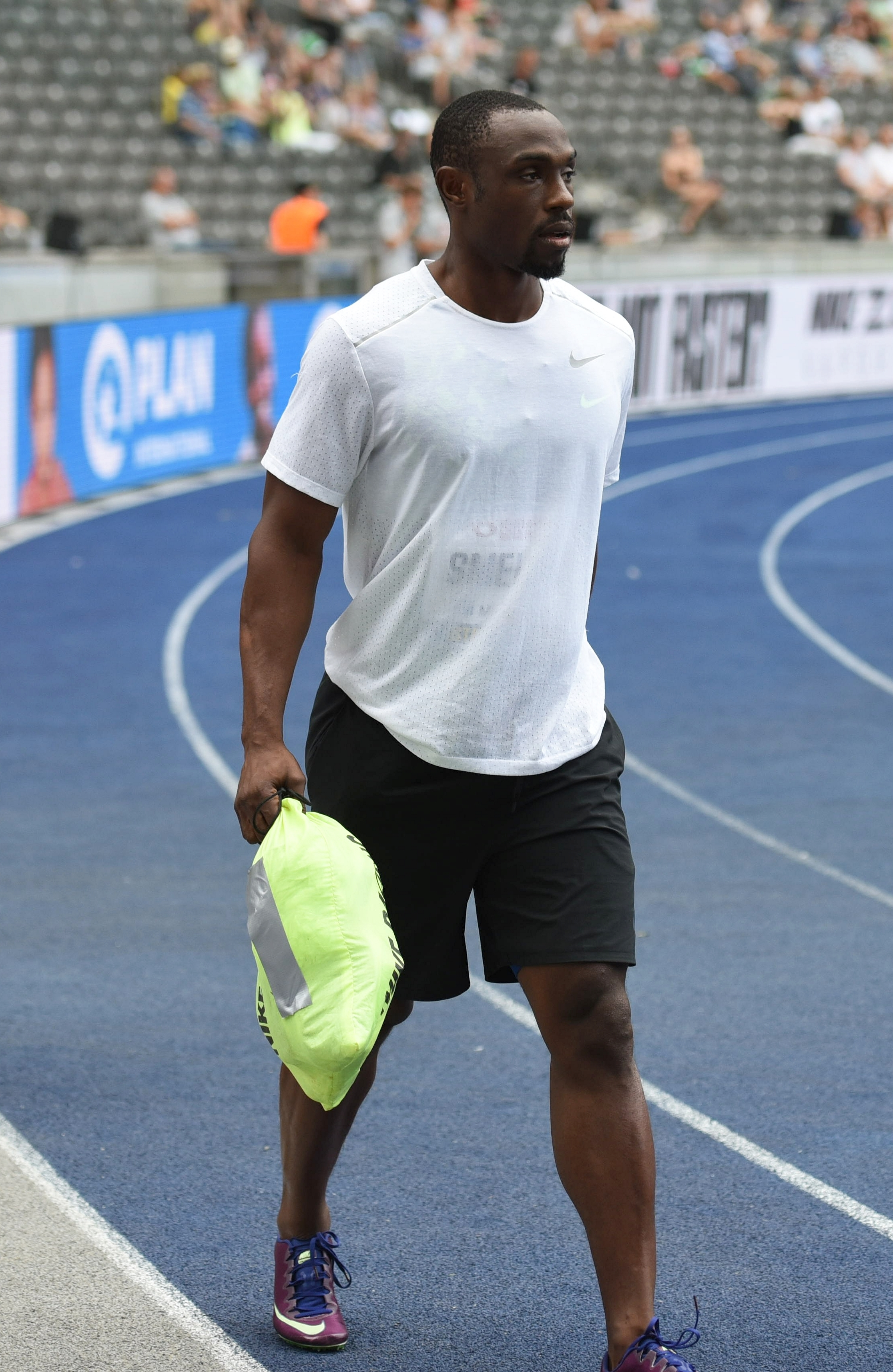 100 m men at the ISTAF 2019 on 1 September 2019 in Berlin, Germany.